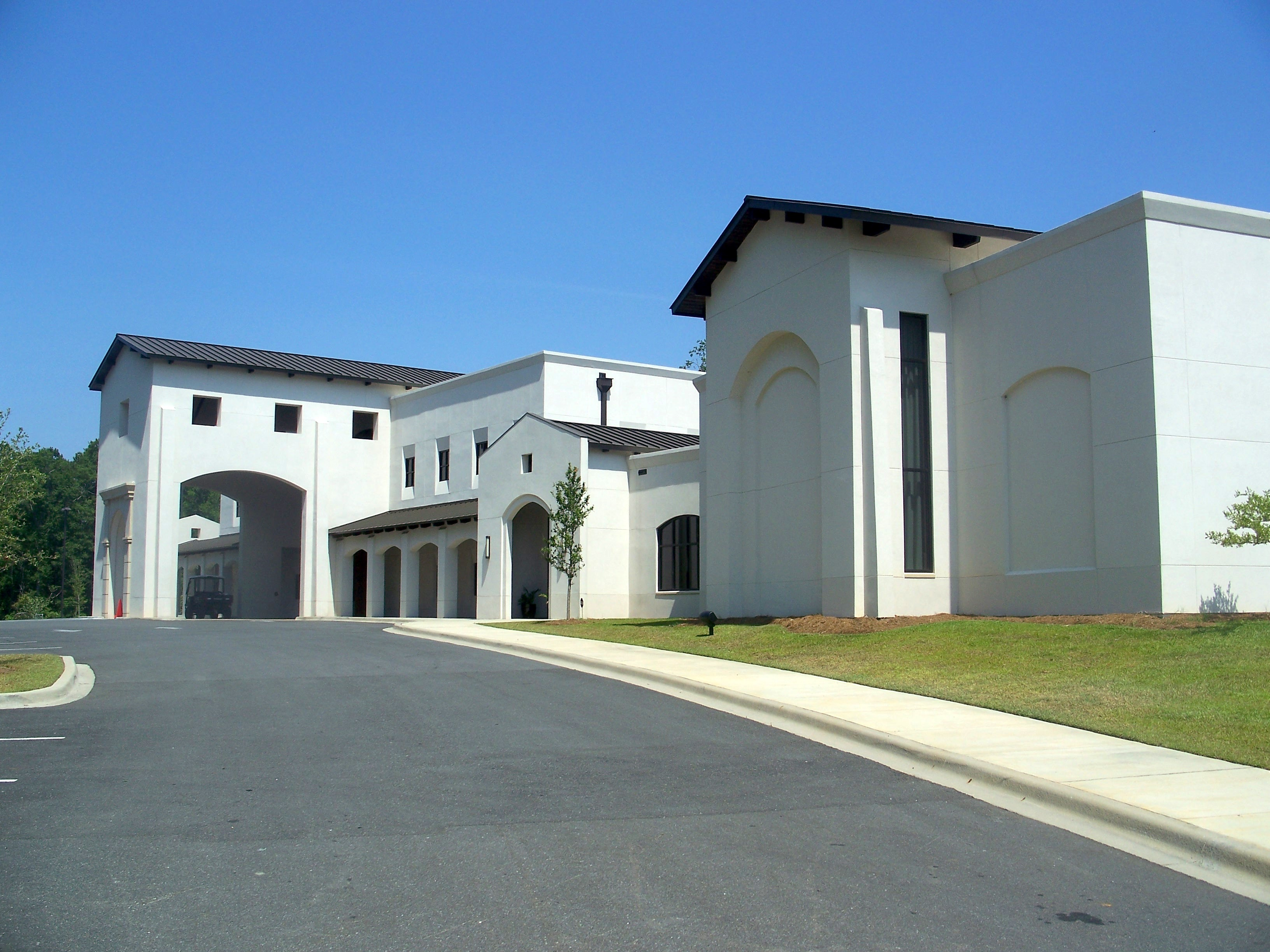 Tallahassee, Florida: Mission San Luis de Apalachee